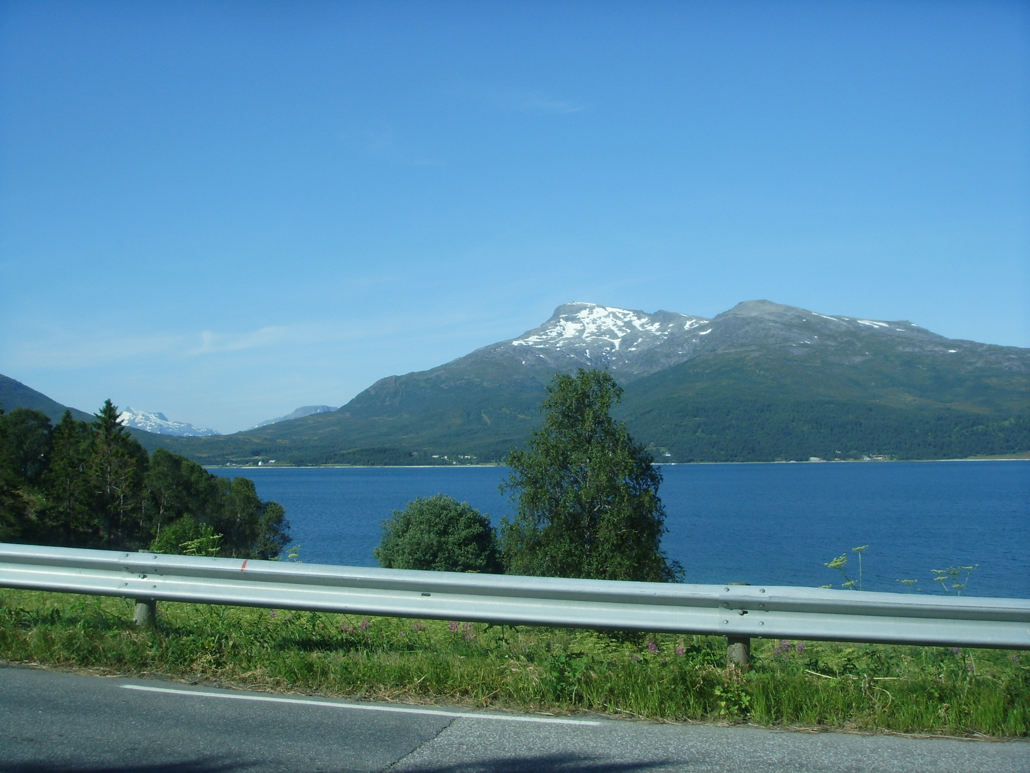 Mount Saetertinden (1094 m asl) on the border of Nordland and Troms conties